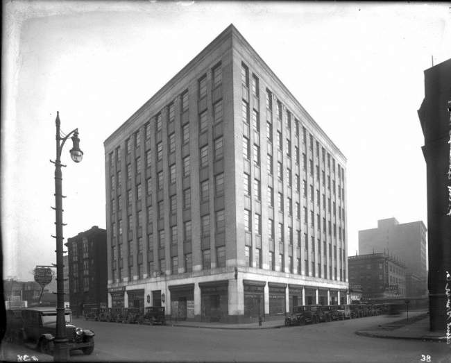 Image of the building in its original form.